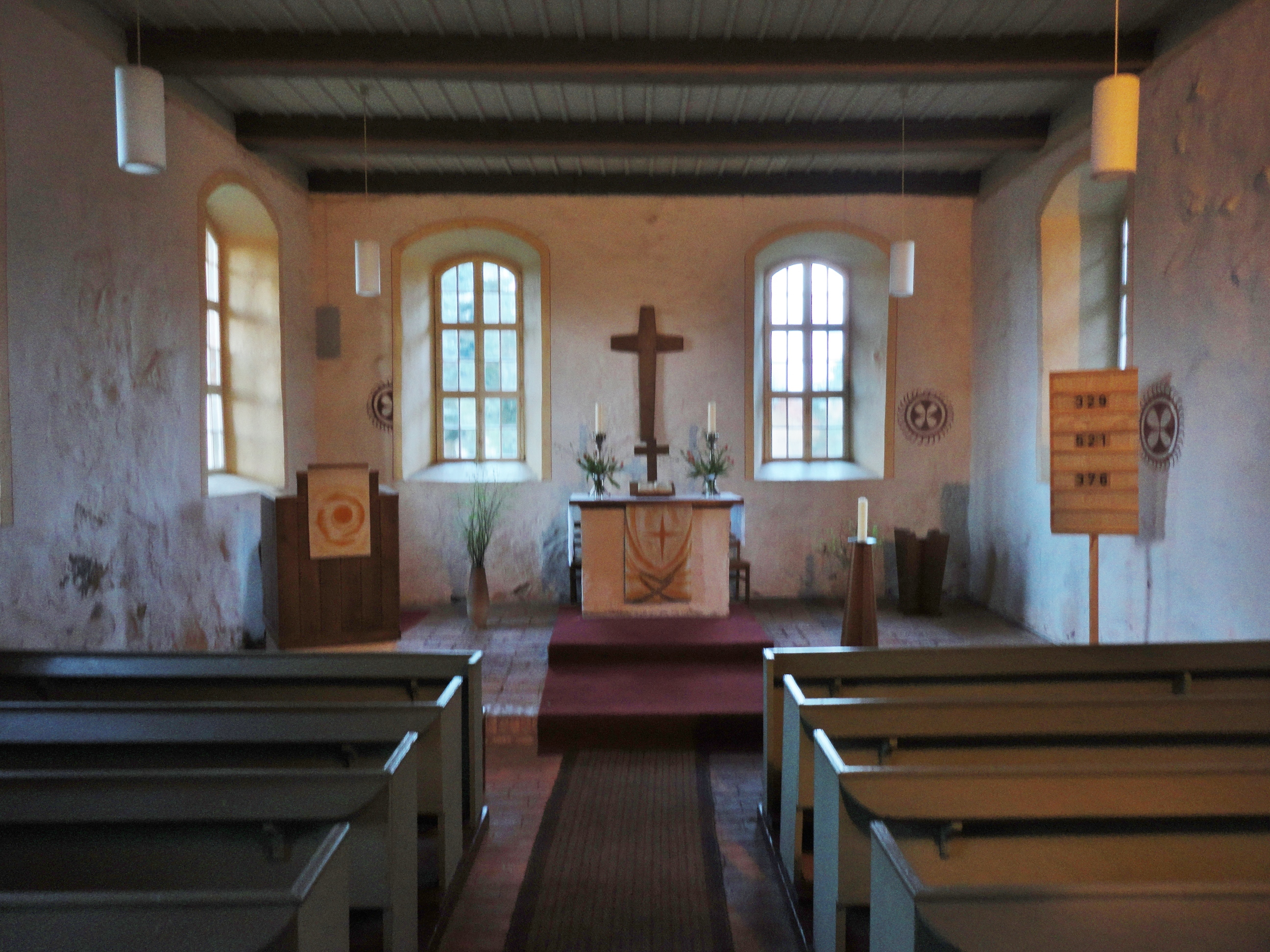 Interior of Buberow church, Gransee city, Oberhavel district, Brandenburg state, Germany